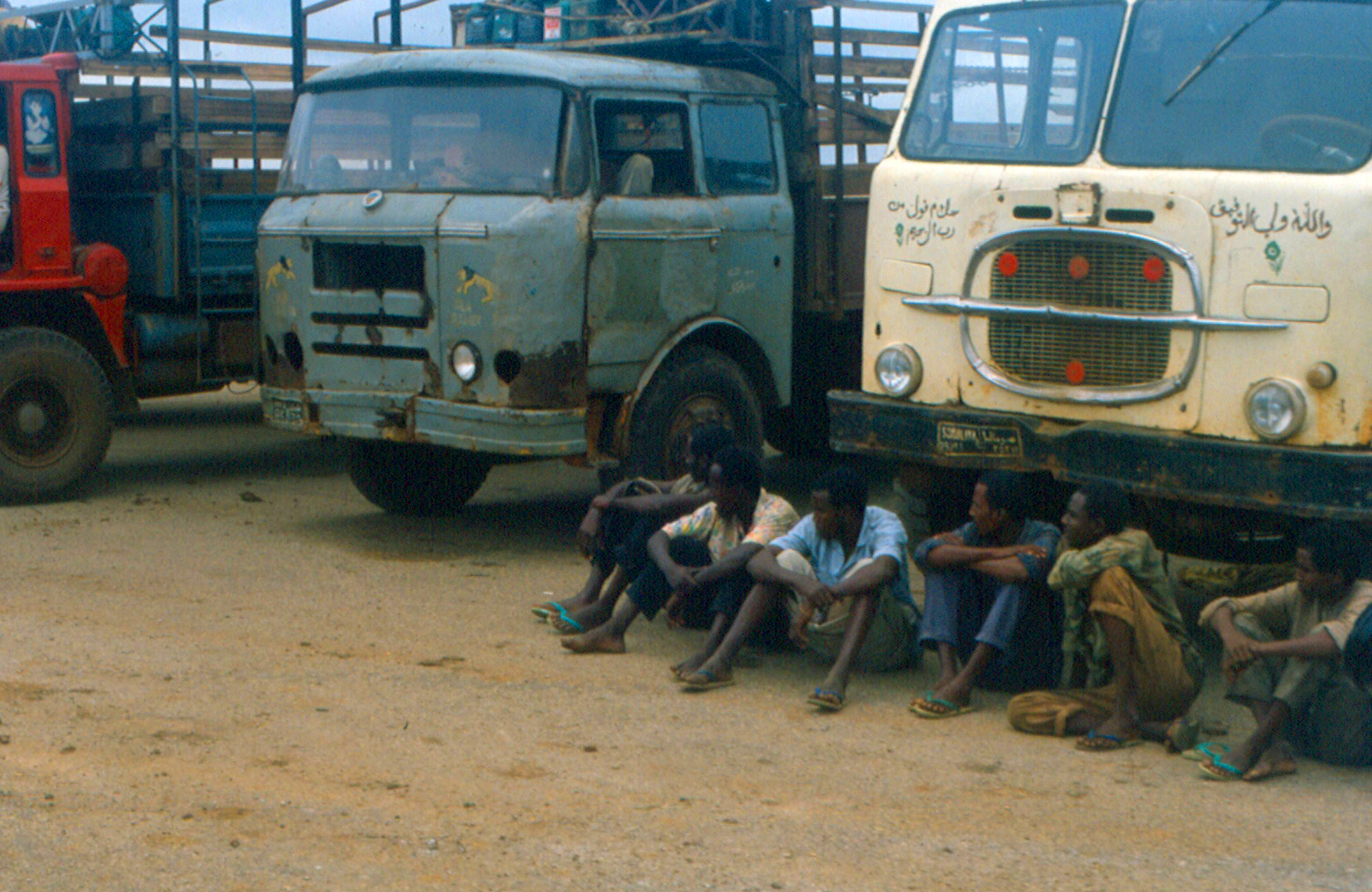 Somali men wait beside their trucks for American and British air crews to unload C-130s (turbo-prop transport aircraft) filled with food and other aid.